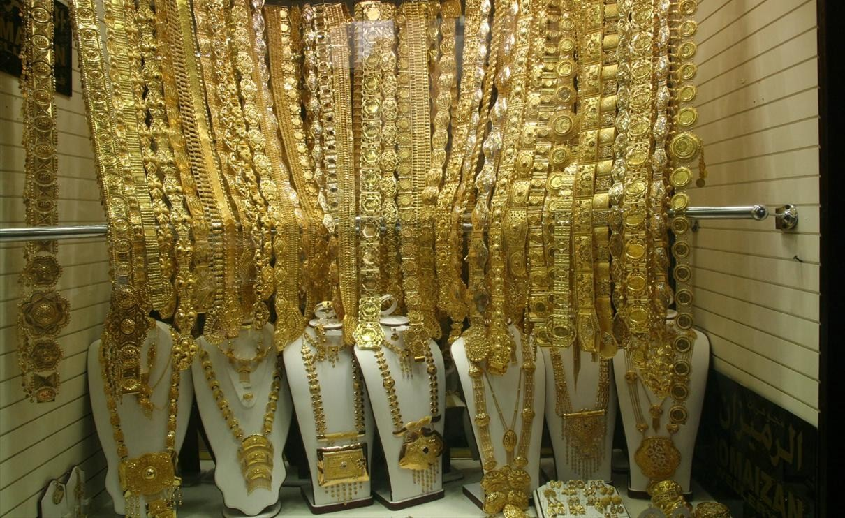 This is a photo showing gold on display in a window in the Dubai Gold Souk in Deira, Dubai, United Arab Emirates on 31 May 2007.